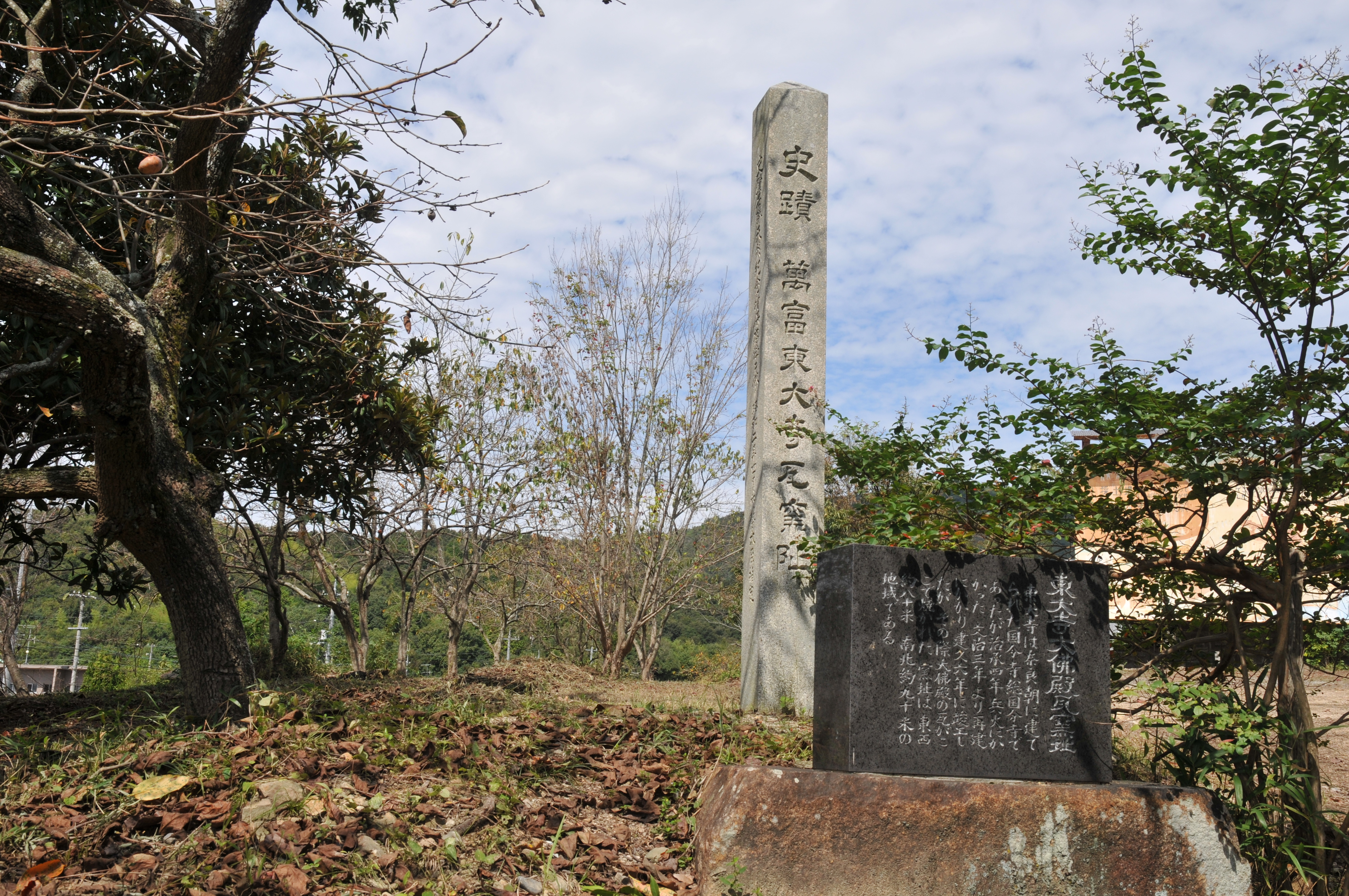 Sign poll, Mantomi Todaiji Gayo Site